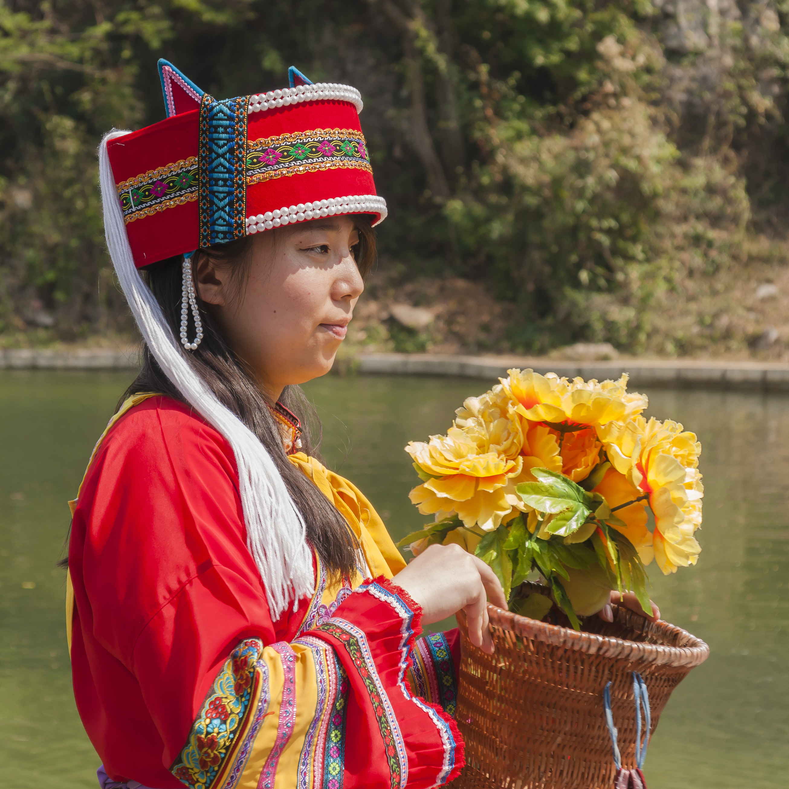 Shilin, Yunnan, China: Woman in traditional clothing of the Yi people at Shilin Stone Forest.